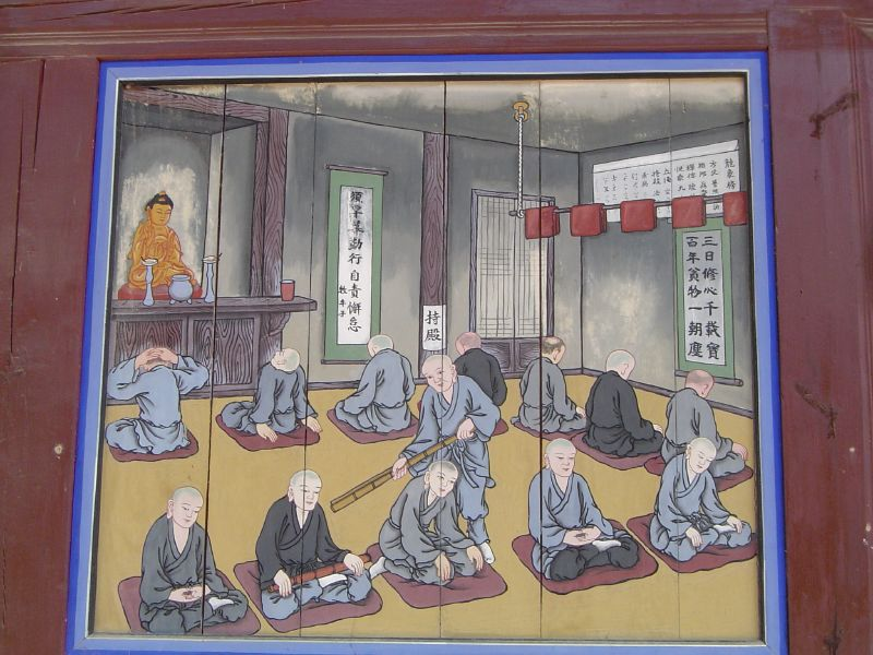 Wall painting in buildings of Songgwangsa, one of the most important Seon Buddhist monasteries in Korea and located in Jogyesan in Songgwang-myeon, Suncheon, Jeollanam-do, South Korea. This picture were taken in May 2004. Lanterns decorating for celebrating Buddha's birthday.